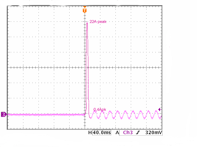 Inrush of a 100VA Toroid Transformer